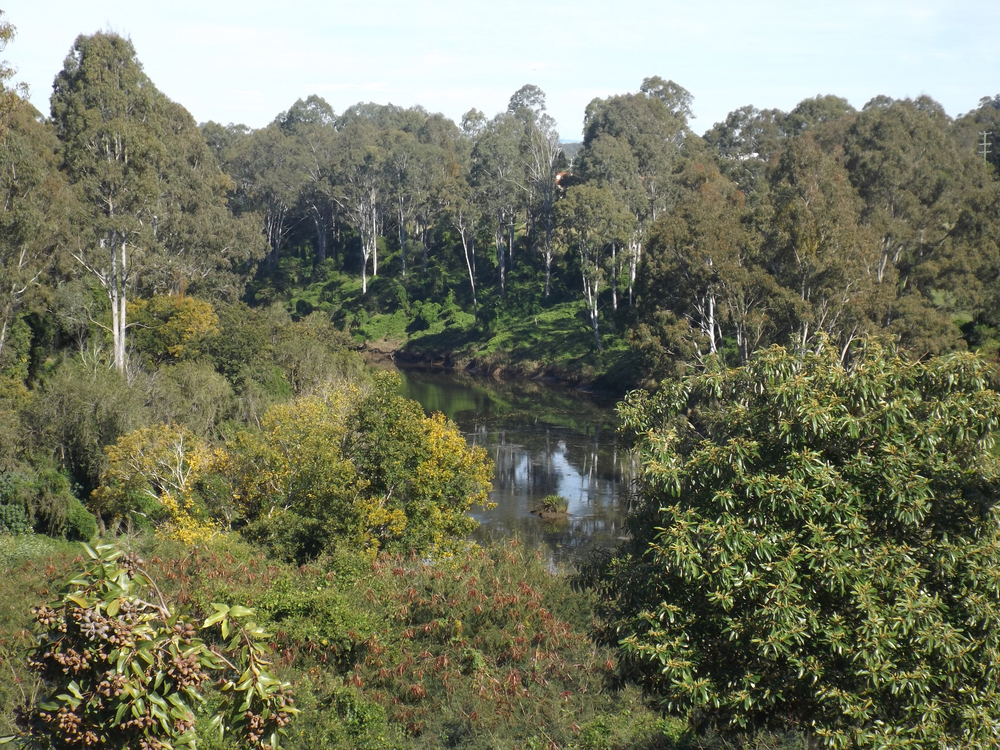 Photo of Bremer River at North Ipswich, Queensland, Australia. Woodend can be seen on the opposite bank of the river.